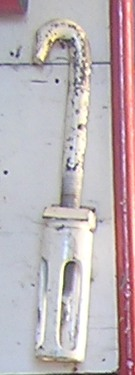 Standard point clip at Bungendore Station, potentially used to lock railway points in position. A padlock is inside the cylinder and the slots enable it to be locked or unlocked. see [1] for instructions for this. In use the hook goes over the switch blade flange. An angled washer fits against the cylinder and against the stock rail.